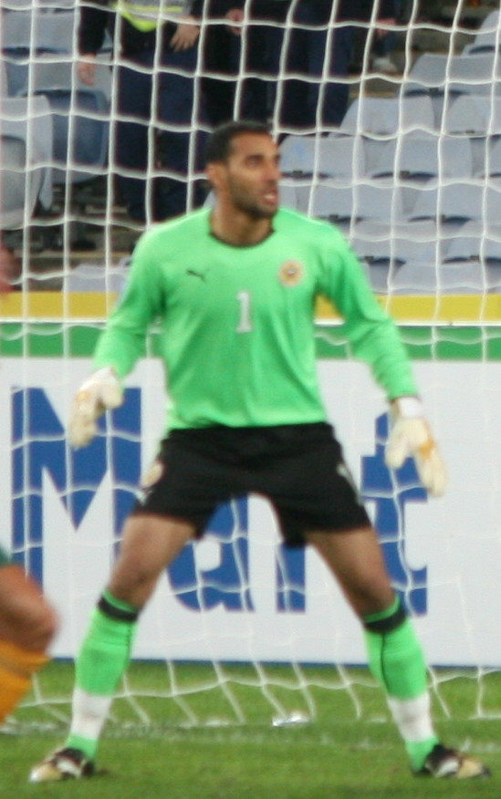 Abbas Ahmed Khamis of Bahrain. Socoroos vs Bahrain. World Cup Qualifier